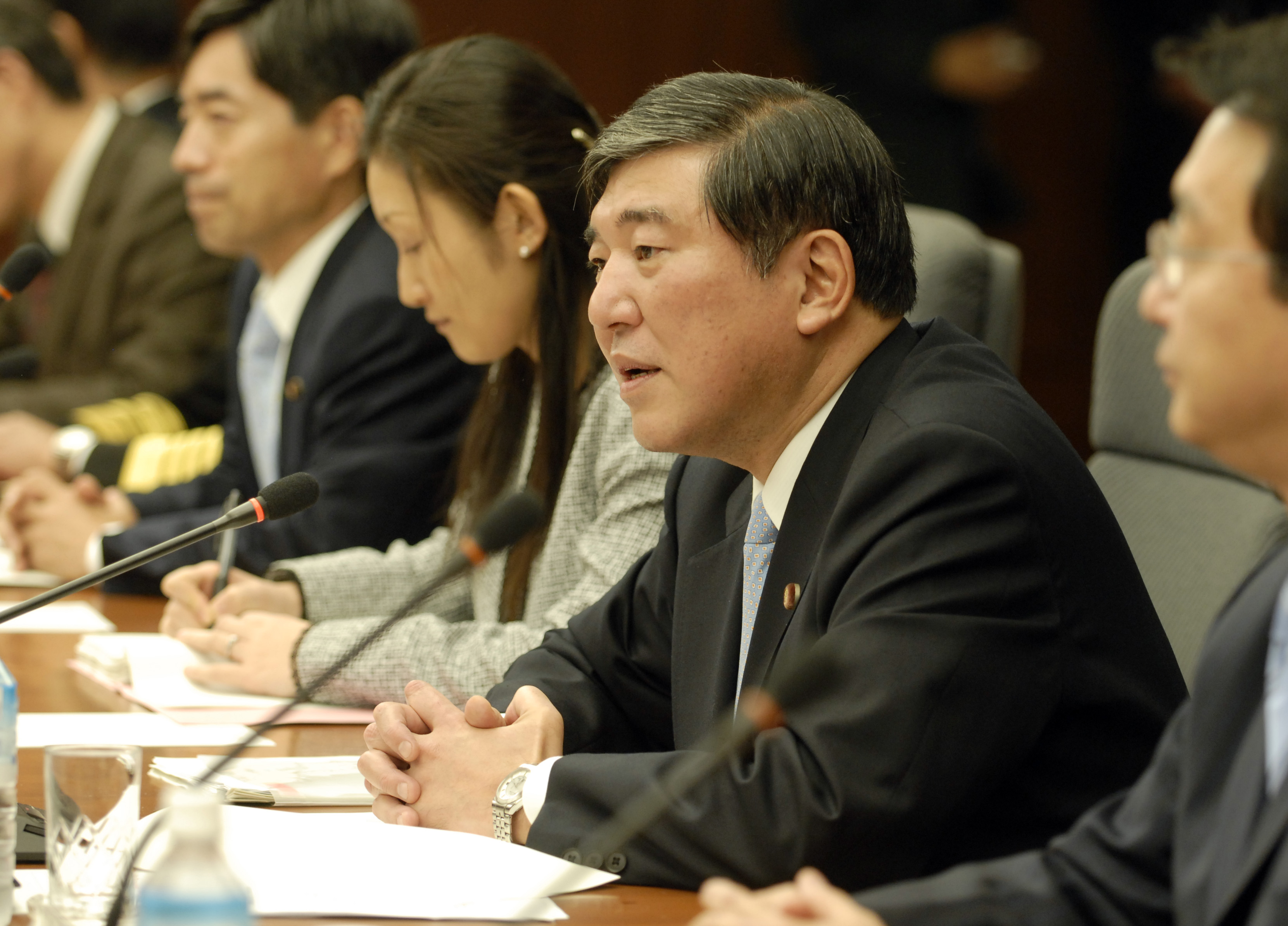 Japanese Minister of Defense Shigeru Ishiba conducts a meeting with Defense Secretary Robert M. Gates, not pictured, at the Ministry of Defense in Tokyo, Japan, Nov. 8, 2007.